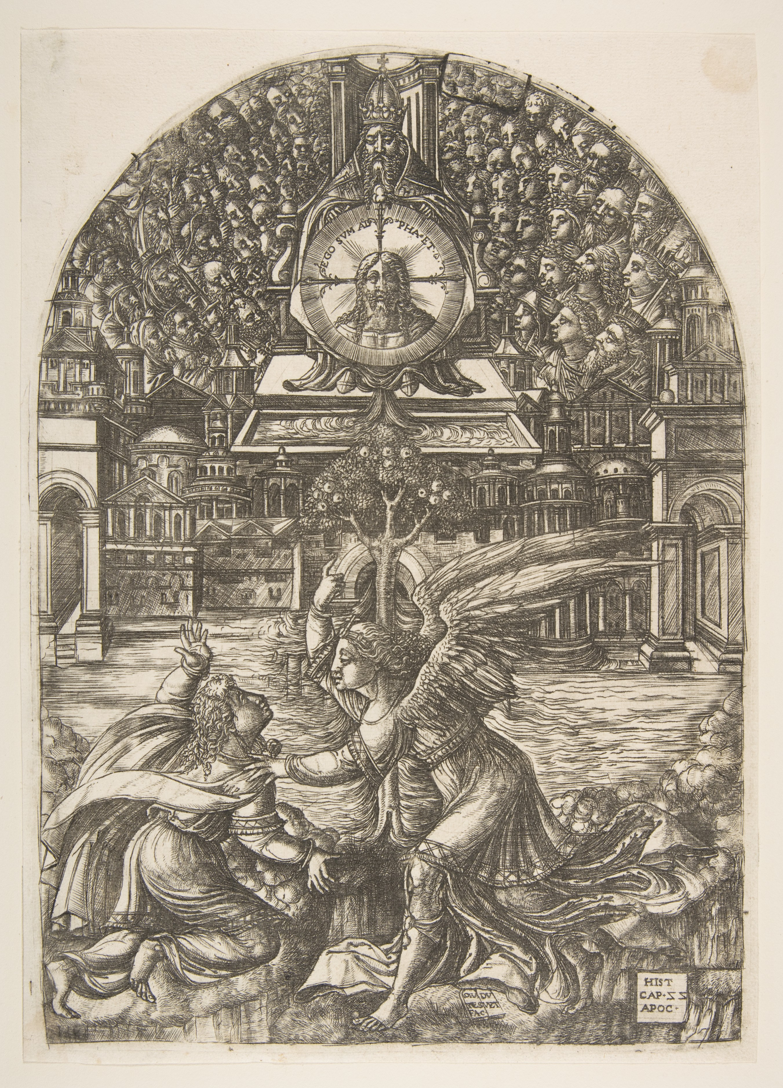 Print; Prints